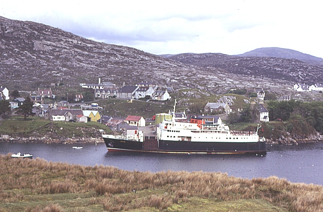 MV Hebrides at Tarbert, Isle of Harris. The former CalMac ferry plied the Minch between Uig, Tarbert and Lochmaddy.